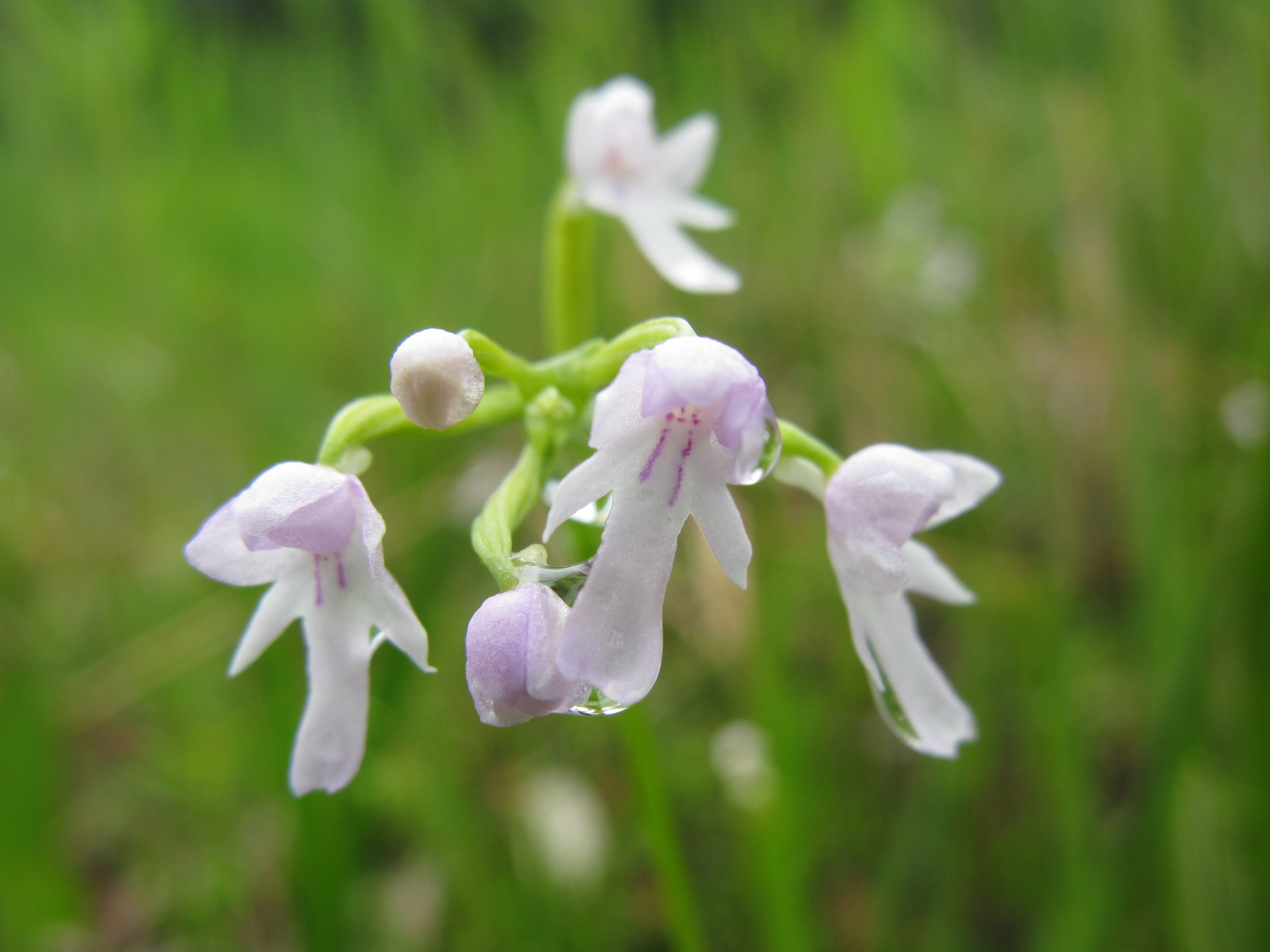 Amitostigma kinoshitae, Oze, Fukushima pref., Japan